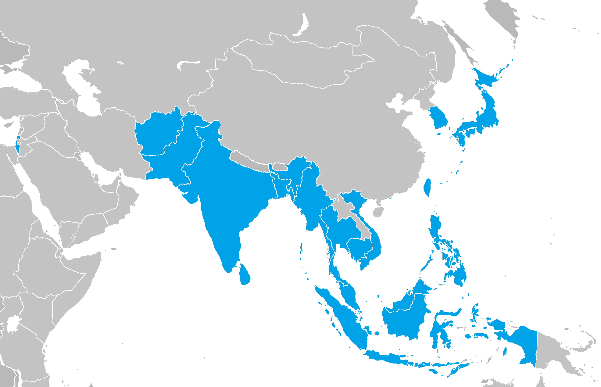 Countries which participated in the 1954 Asian Games.